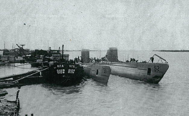 Romanian submarines Rechinul (left) and Marsuinul (right) in port